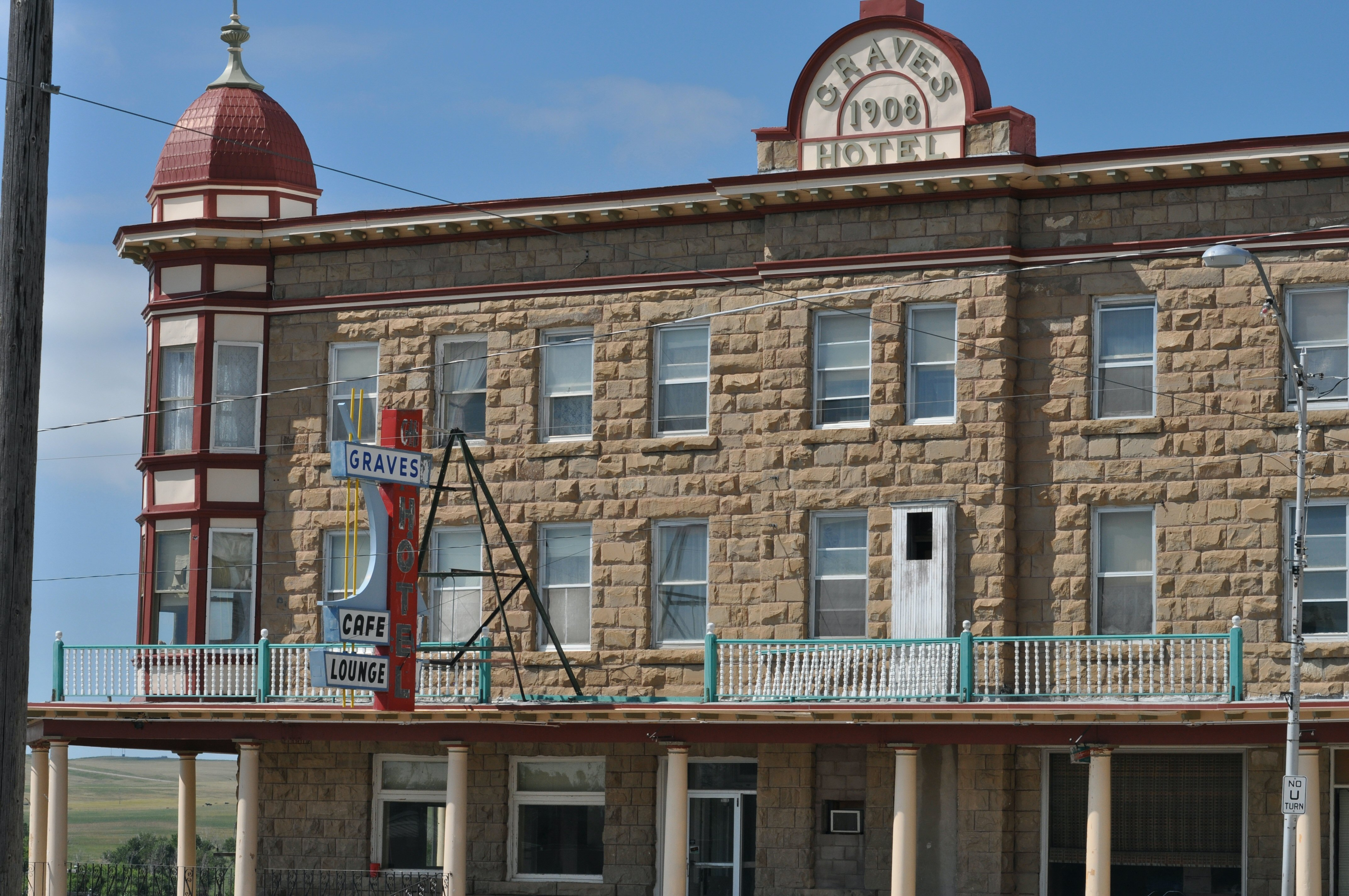 Graves Hotel, Harlowton, MT 2011-07-17